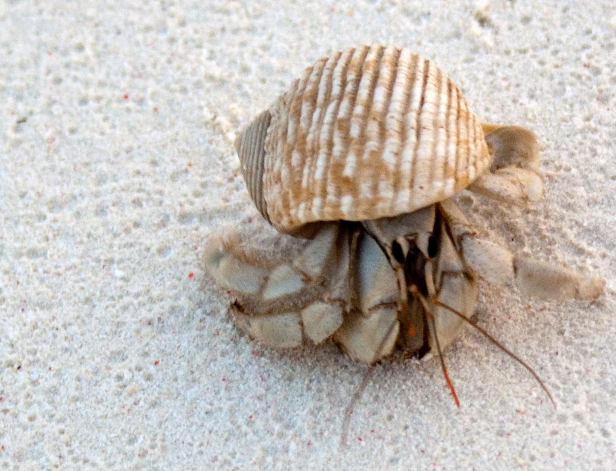 Crabs of the family Coenobitidae ; Juan de Nova in Indian Ocean belonging to Scattered islands, within the territory of the France.